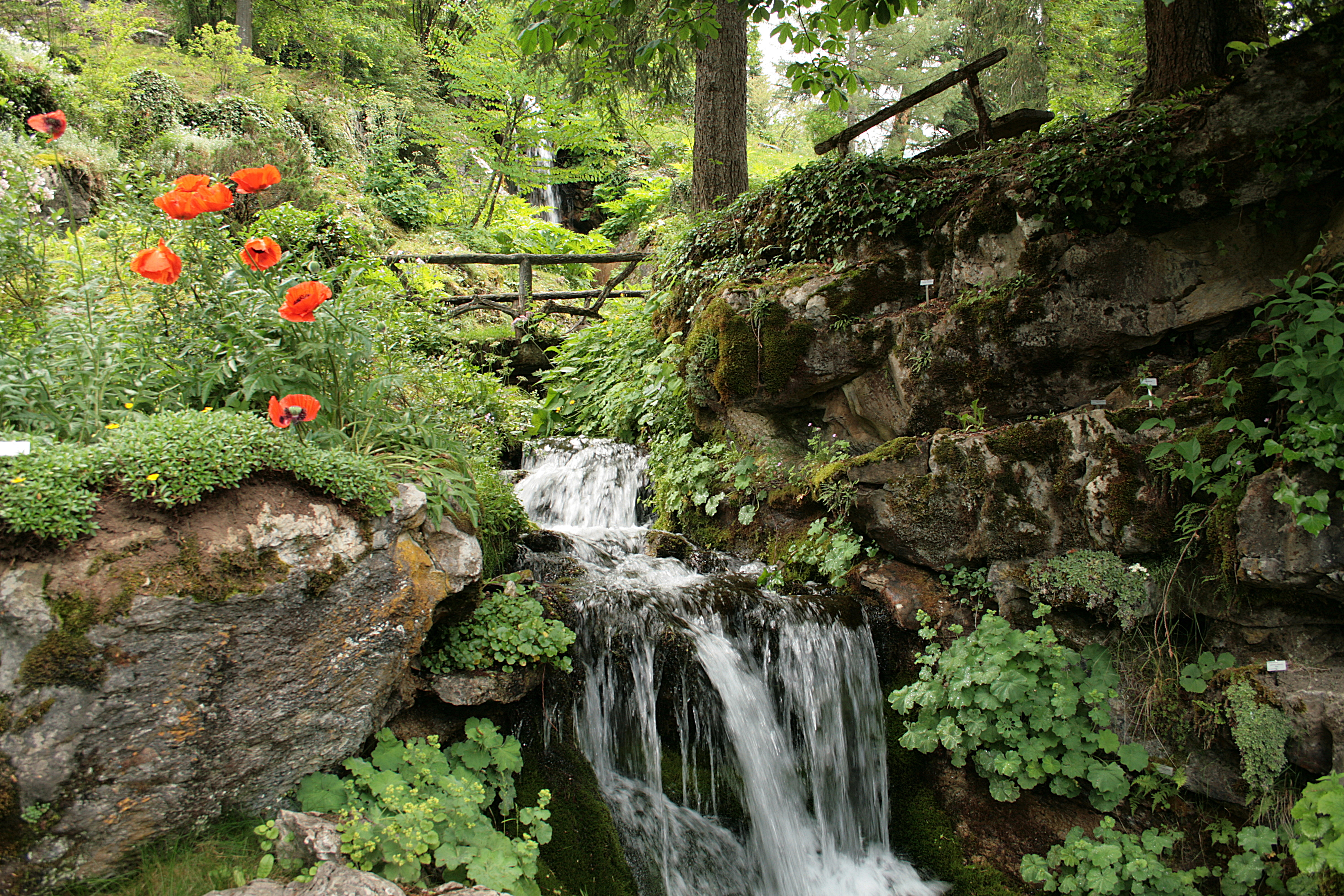 Waterfall of the Jaÿsinia in Samoëns (France).